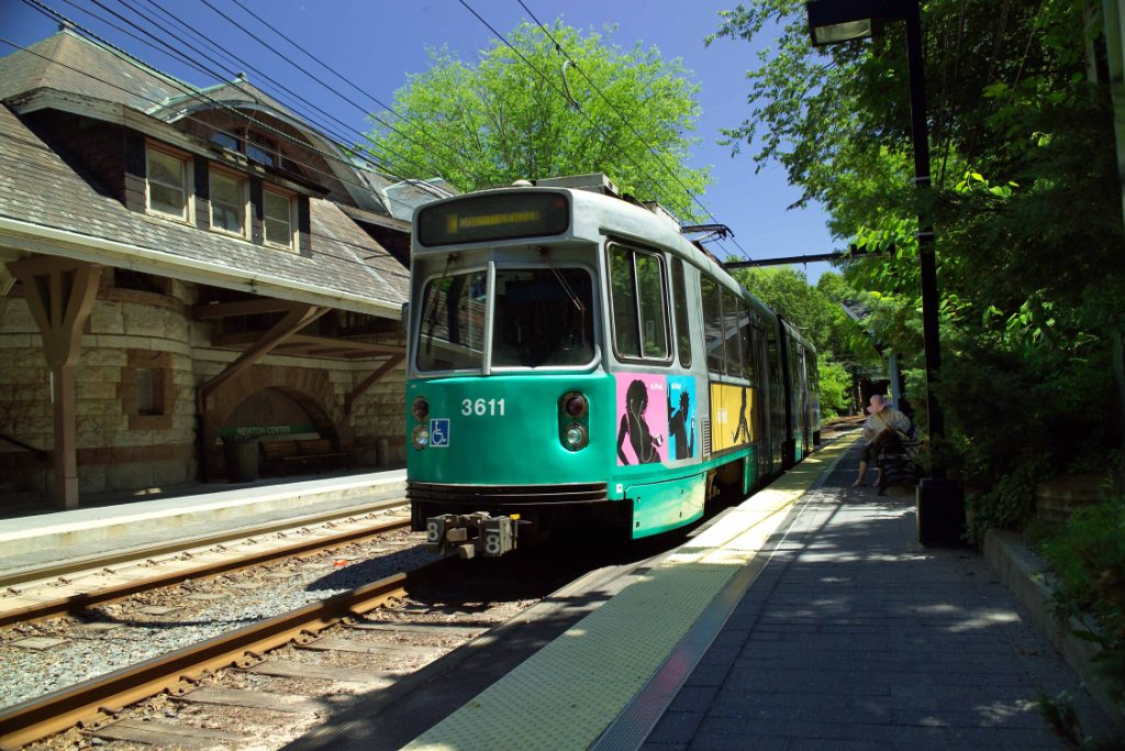 Type 7 car #3611 heads inbound past the historic H. H. Richardson depot at Newton Center